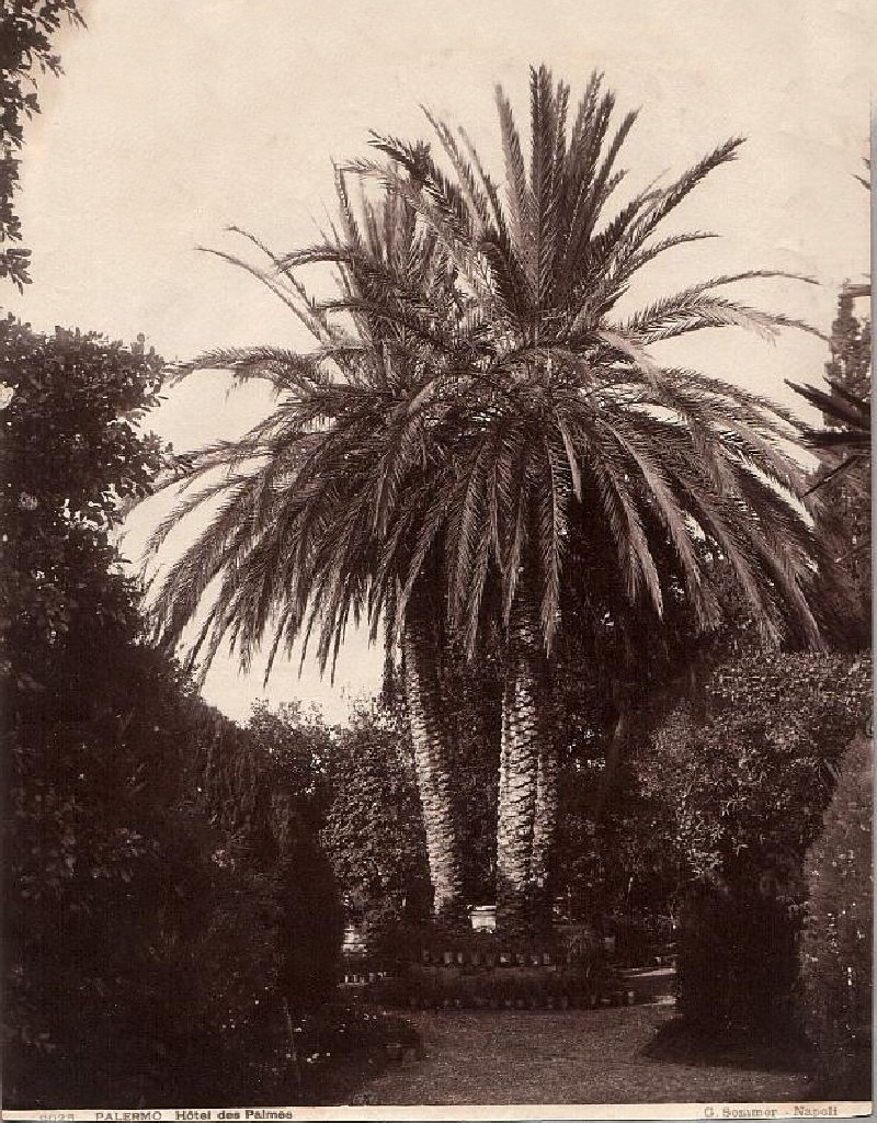 Giorgio Sommer (1834-1914), "Palermo. Hotel des Palmes". Catalogue number: 9025.